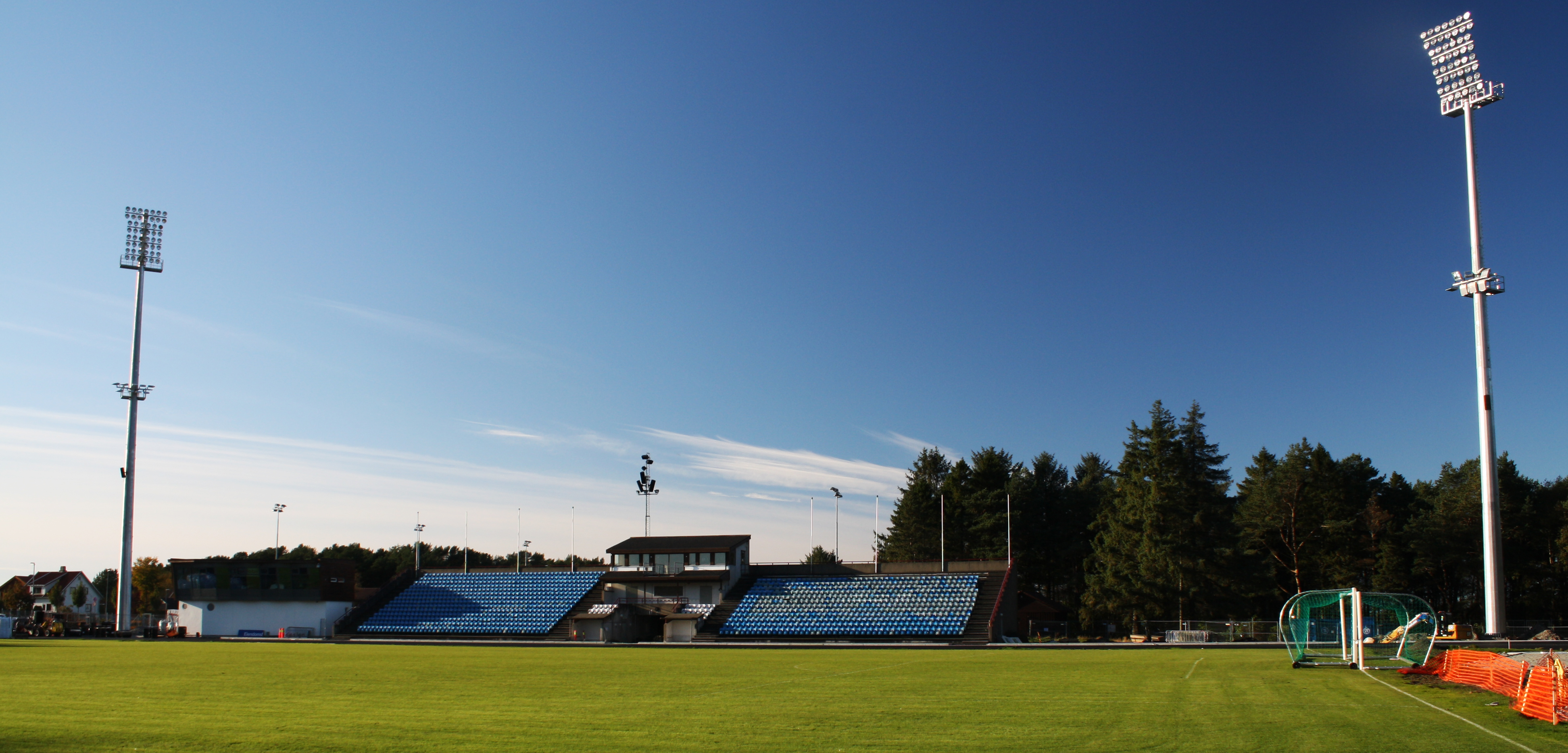 Sandnes idrettspark autumn 2009, Sandnes, Norway